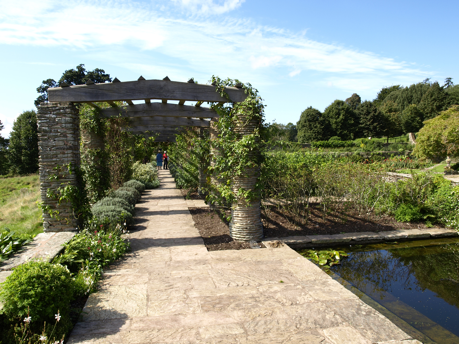 Hestercombe Gardens, Taunton, Somerset, UK. Designed by Sir Edward Lutyens and established in 1904-08.